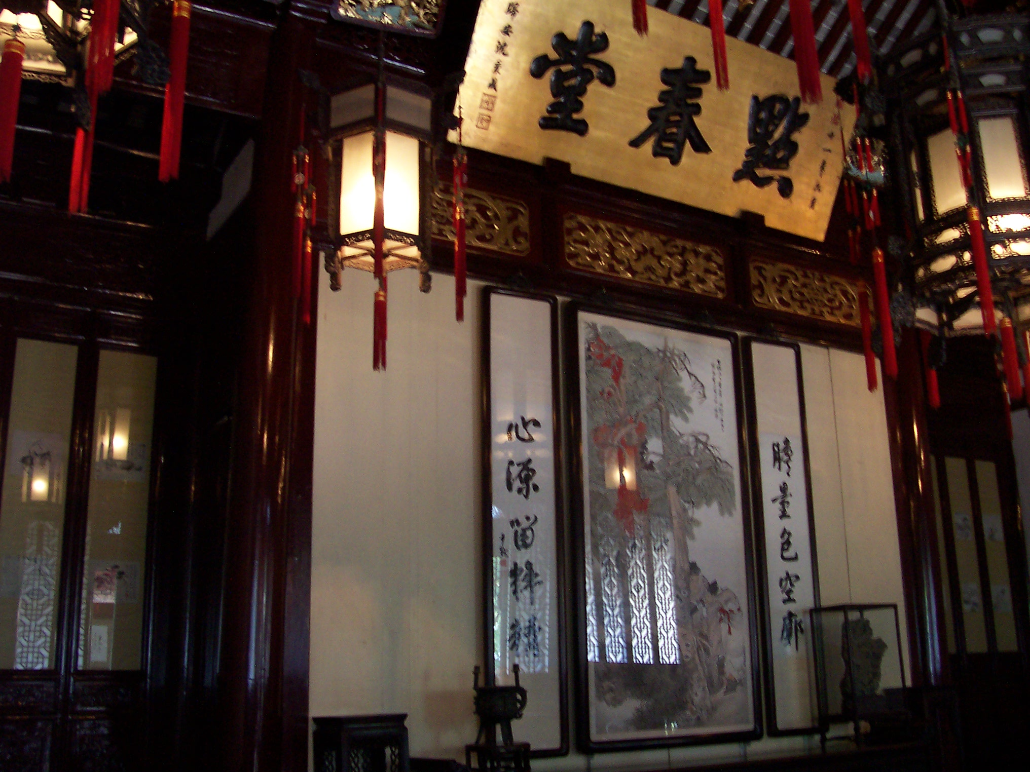 Dianchun Hall at Yu Garden in Shanghai